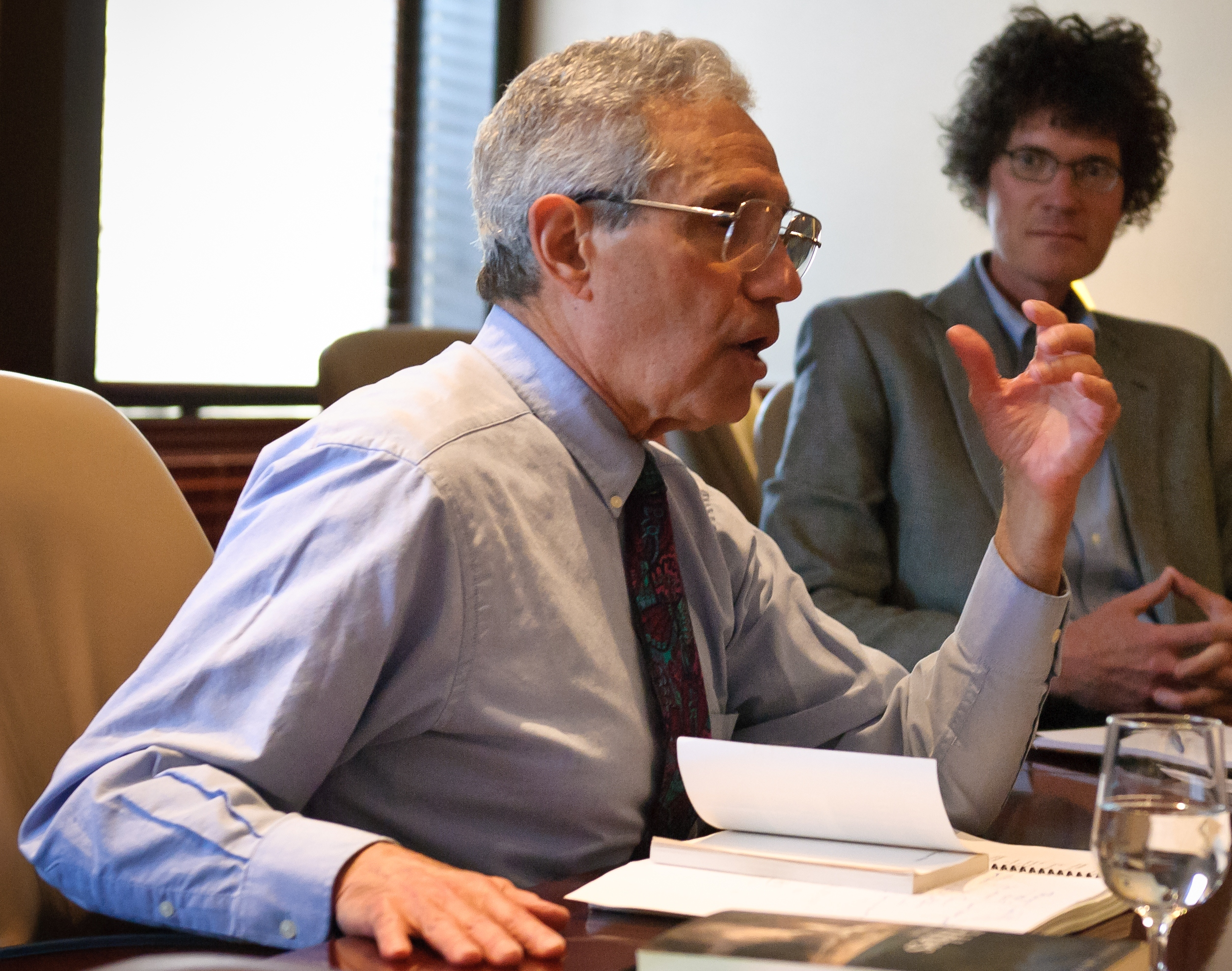 Dr. Bernard Gert at Utah Valley University in May 2011